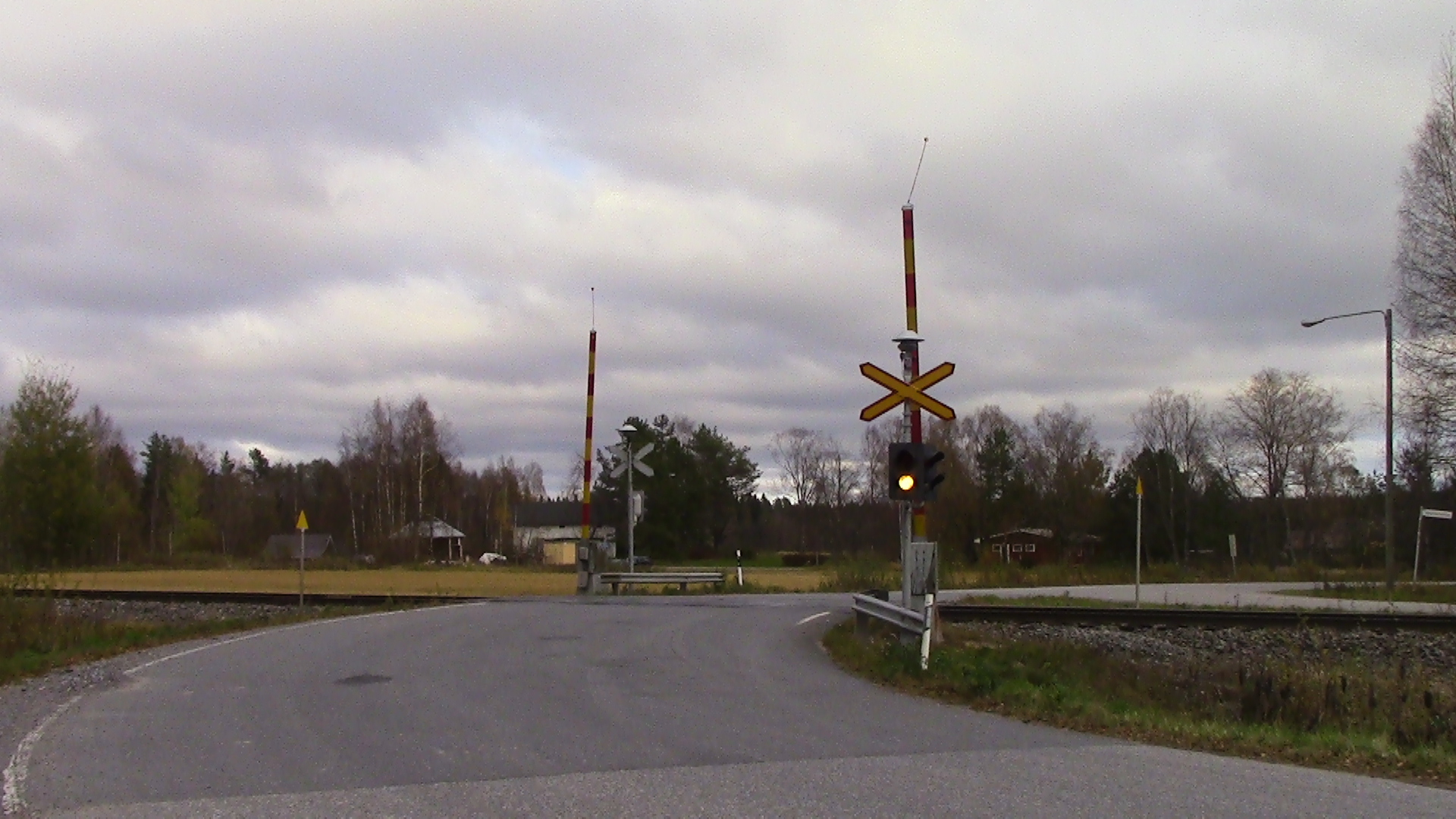 Finnish connecting road 3422 at Lyly level crossing in Juupajoki. The road runs from national road 58 to the road crossing located next to Lyly railway station.